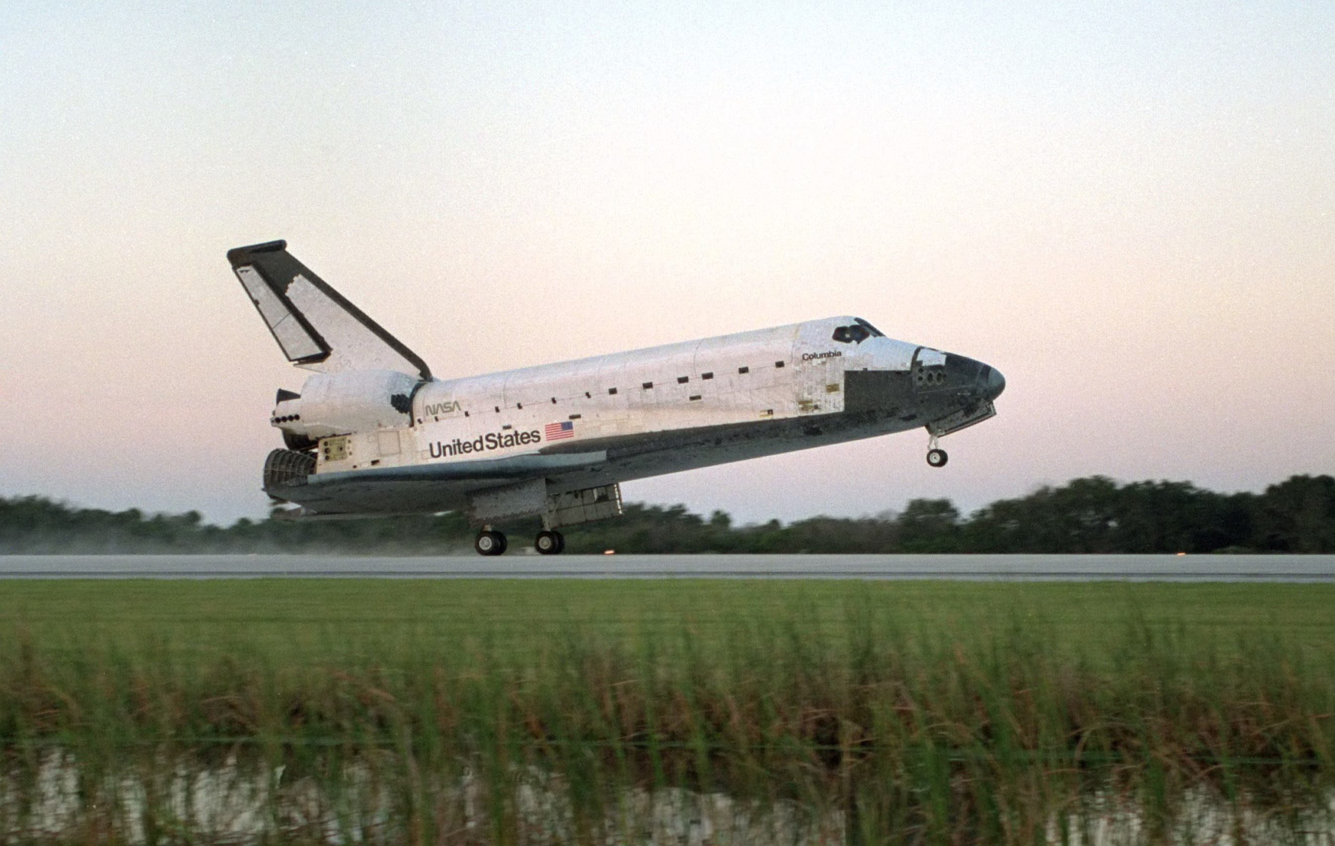 The Space Shuttle Columbia makes its 18th landing. Landing occurred at 6:48 a.m. (EST), November 5, 1995.